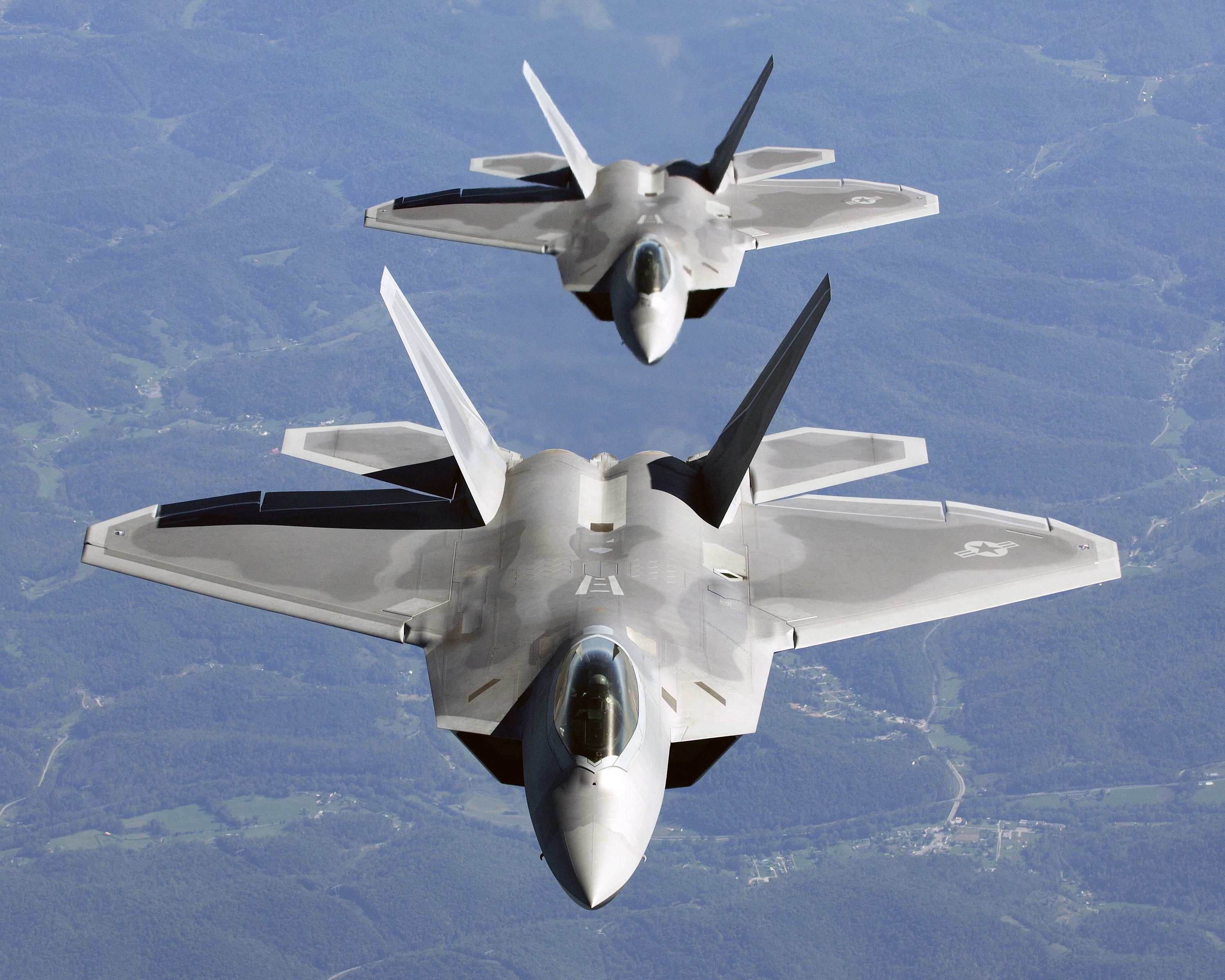 Lt. Col. James Hecker (front) and Lt. Col. Evan Dertein line up their F/A-22 Raptor aircraft behind a KC-10 Extender to refuel while en route to Hill Air Force Base, Utah. Colonel Hecker commands the first operational Raptor squadron -- the 27th Fighter Squadron at Langley Air Force Base, Va. The unit went to Hill for operation Combat Hammer, the squadron's first deployment, Oct. 15. The deployment has a twofold goal: complete a deployment and to generate a combat-effective sortie rate away from home. [U.S. Air Force photo by TSgt Ben Bloker]